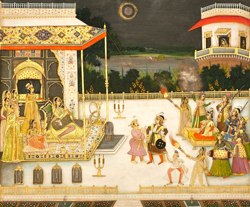 Queen Udham Bai entertained. Ladies being entertained by actors in Portuguese costumes; Queen being entertained by ladies in European costumes. Media & Support: Opaque watercolor and gold on paper. Display Dimensions: 10 13/16 in. x 12 7/8 in. (27.5 cm x 32.7 cm). Credit Line: San Diego Museum of Art. Edwin Binney 3rd Collection. Accession Number: 1990.383